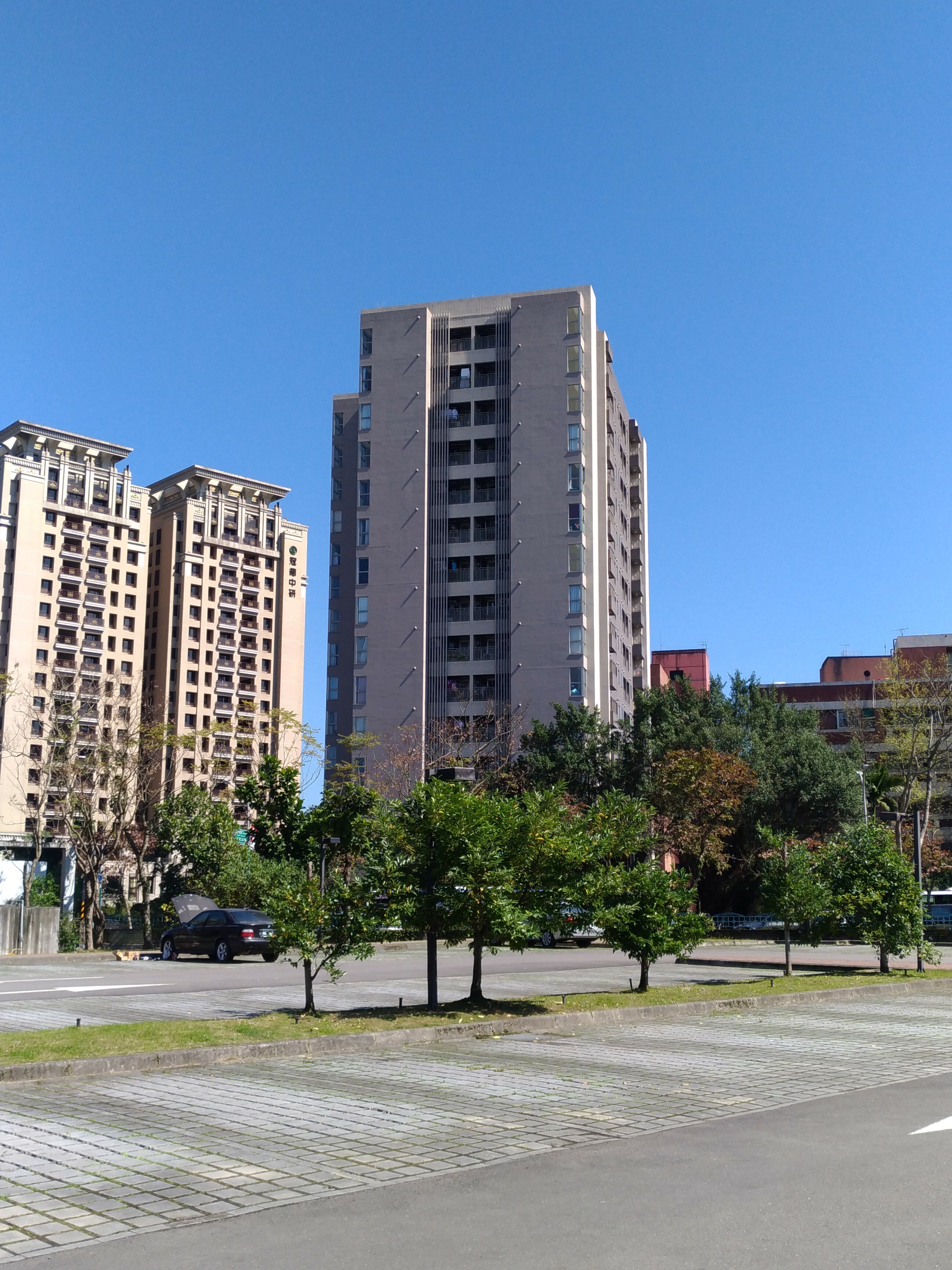 One of the dorm for TIGP students